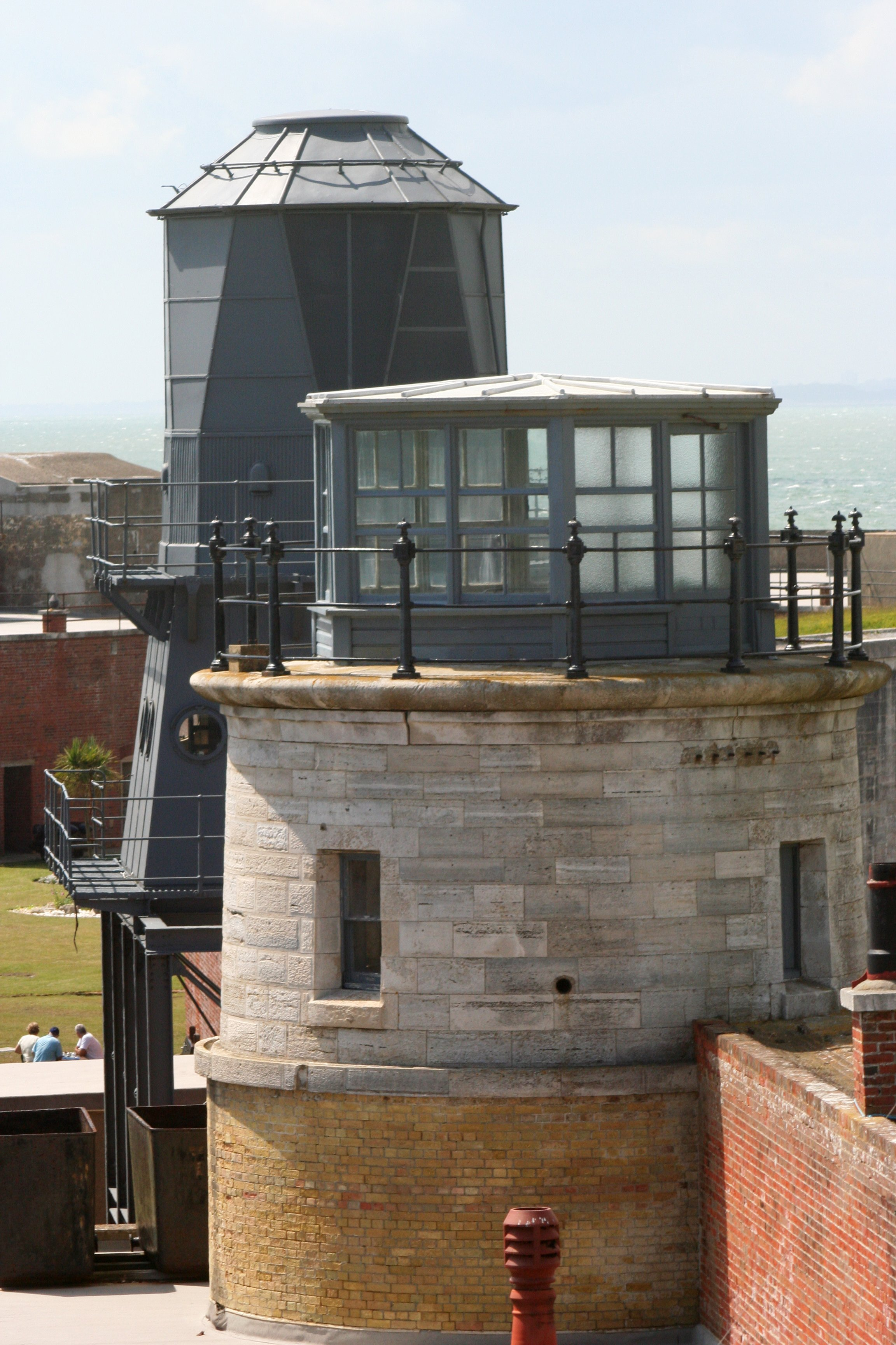 The two "Low Lighthouses" at Hurst Castle. The granite lighthouse was built in 1866; the metal lighthouse replaced it in 1911. The 1911 lighthouse was decommissioned in 1997.